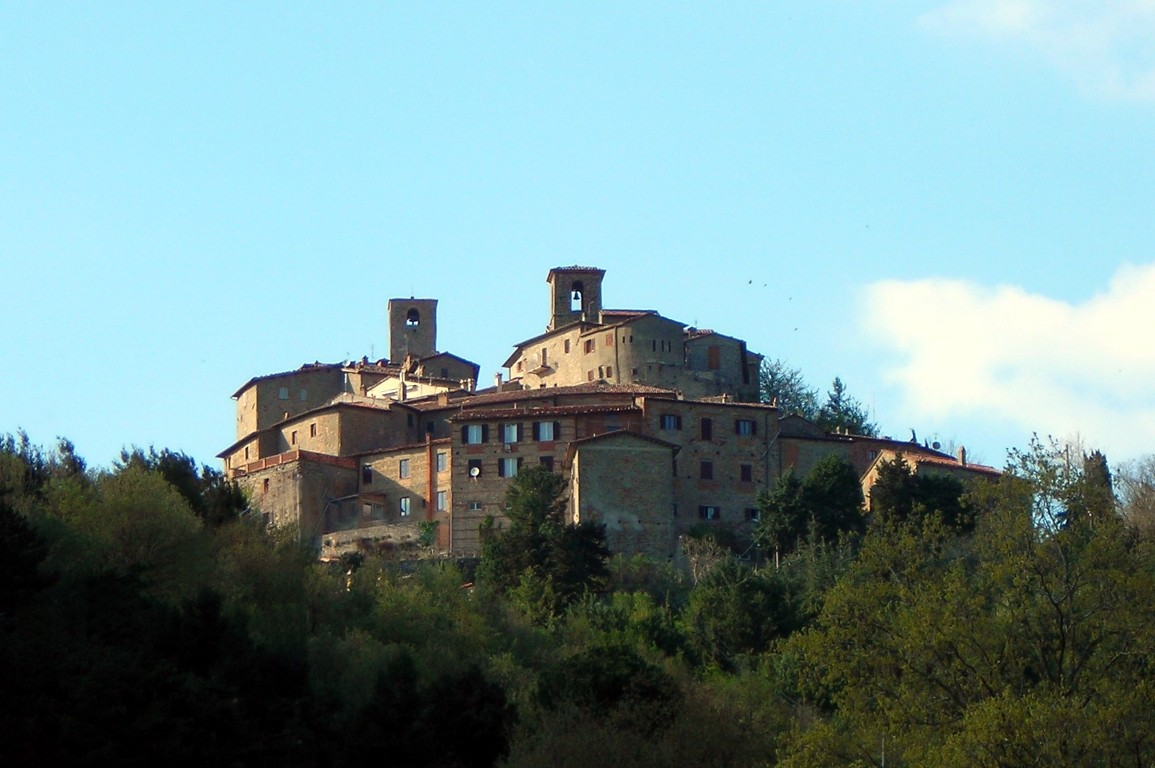 City of Monte Santa Maria Tiberina, Perugia, Umbria, Italy